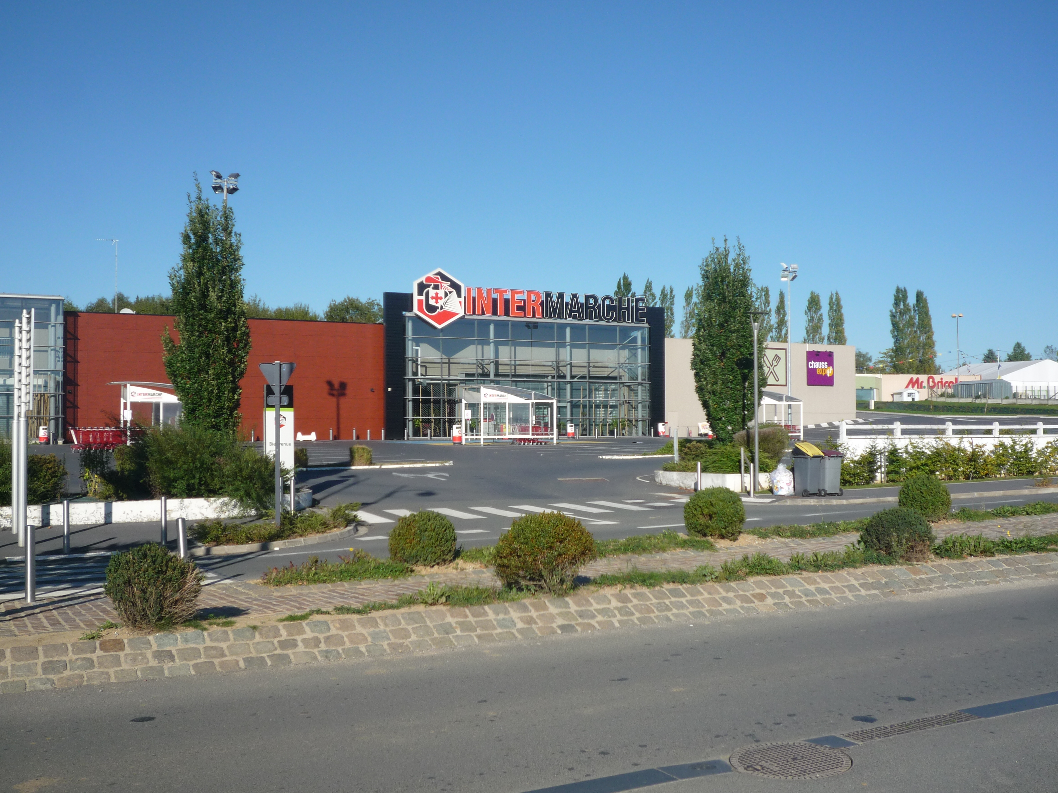 Caudry, Nord-Pas-de-Calais, France.